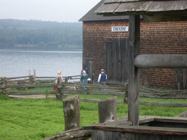 I am the originator of this photo. I hold the copyright. I release it to the public domain. This photo depicts the theatre at Kings Landing Historical Settlement.